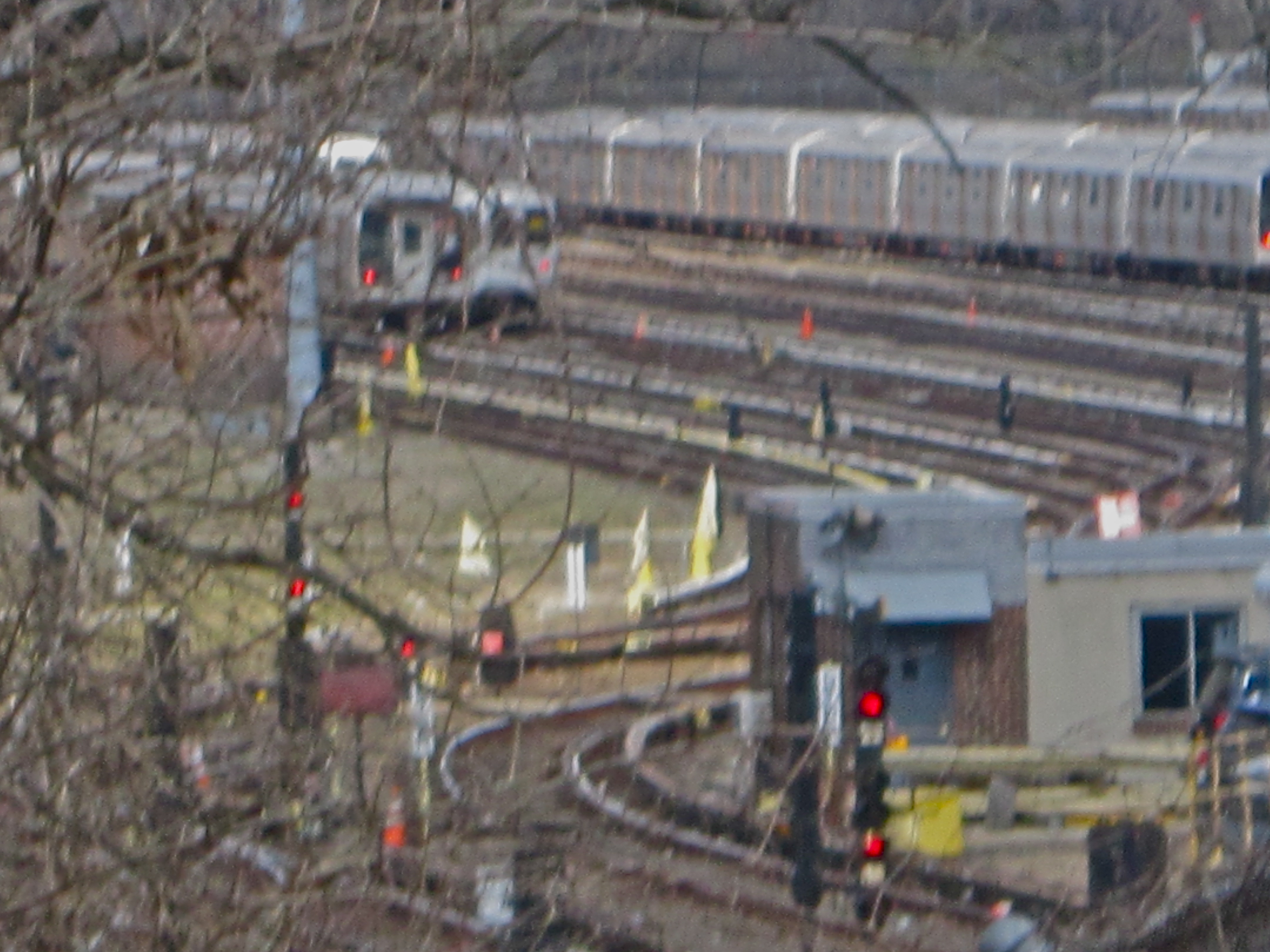 This is a view of Jamaica Yard in Kew Gardens, Queens, with a vie of some R160s and an R46